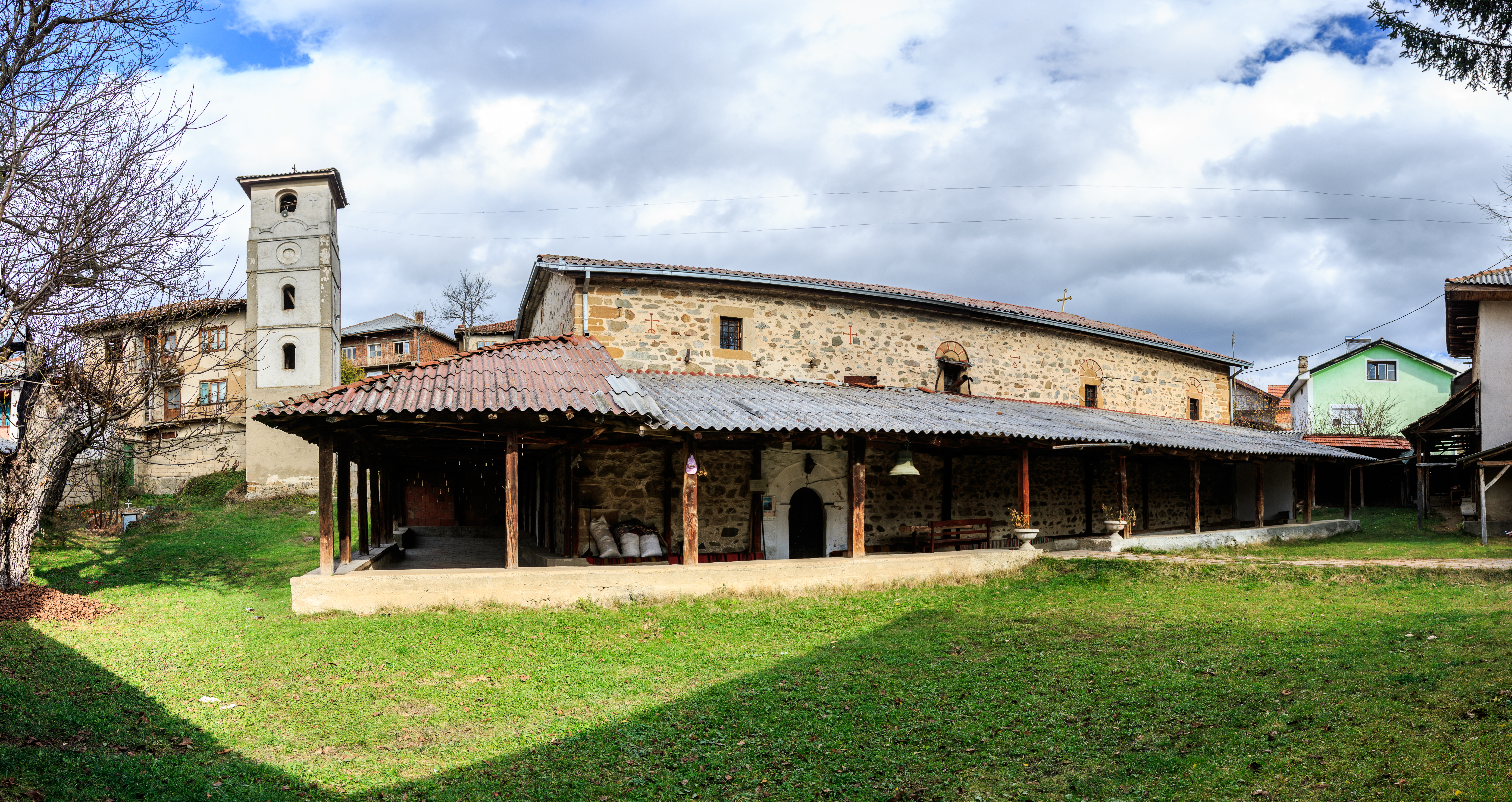 St. George's Church in the village of Budinarci, Maleševija, Macedonia